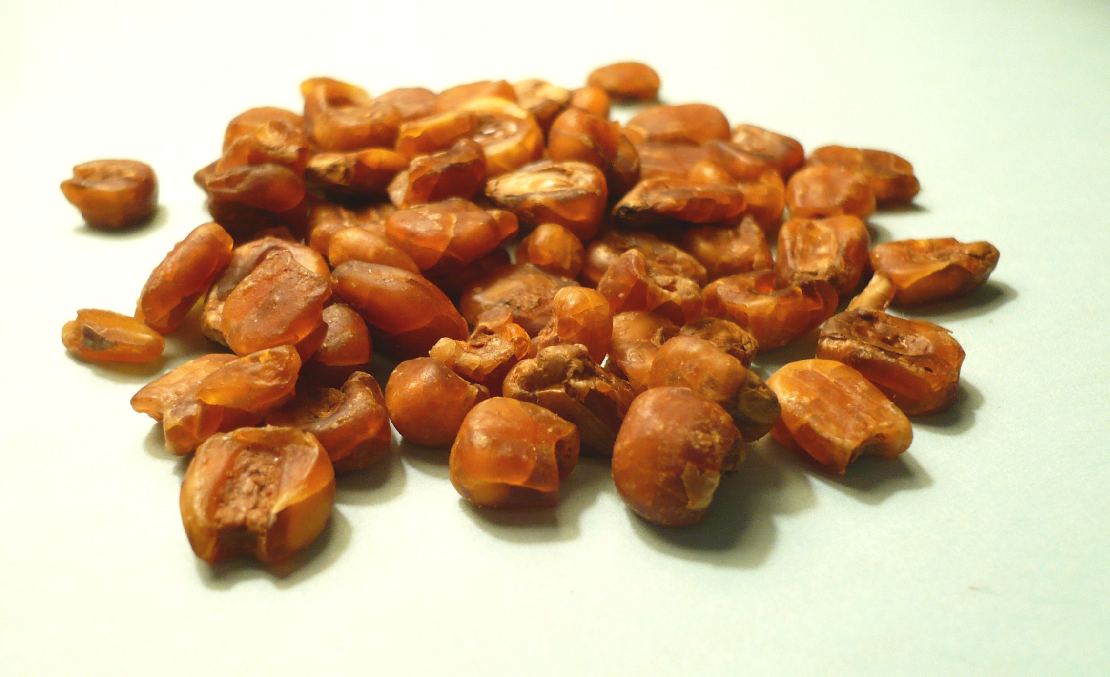 Grains of oksusu cha, a Korean tisane made by boiling toasted maize (corn) kernels. Photo taken in Kent, Ohio with a Panasonic Lumix digital camera (model DMC-LS75). Oksusu cha purchased in a Cuyahoga Falls, Ohio Korean grocery store.